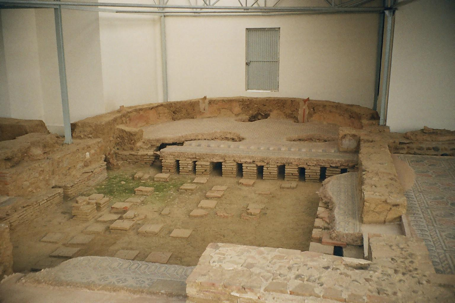 Hypocaust from a late Roman villa. Located at La Olmeda, near Gañinas and Saldaña in Palencia The important mosaics are barely visible in the exedra and the other rooms. Copyrighted by User:Error 2004.